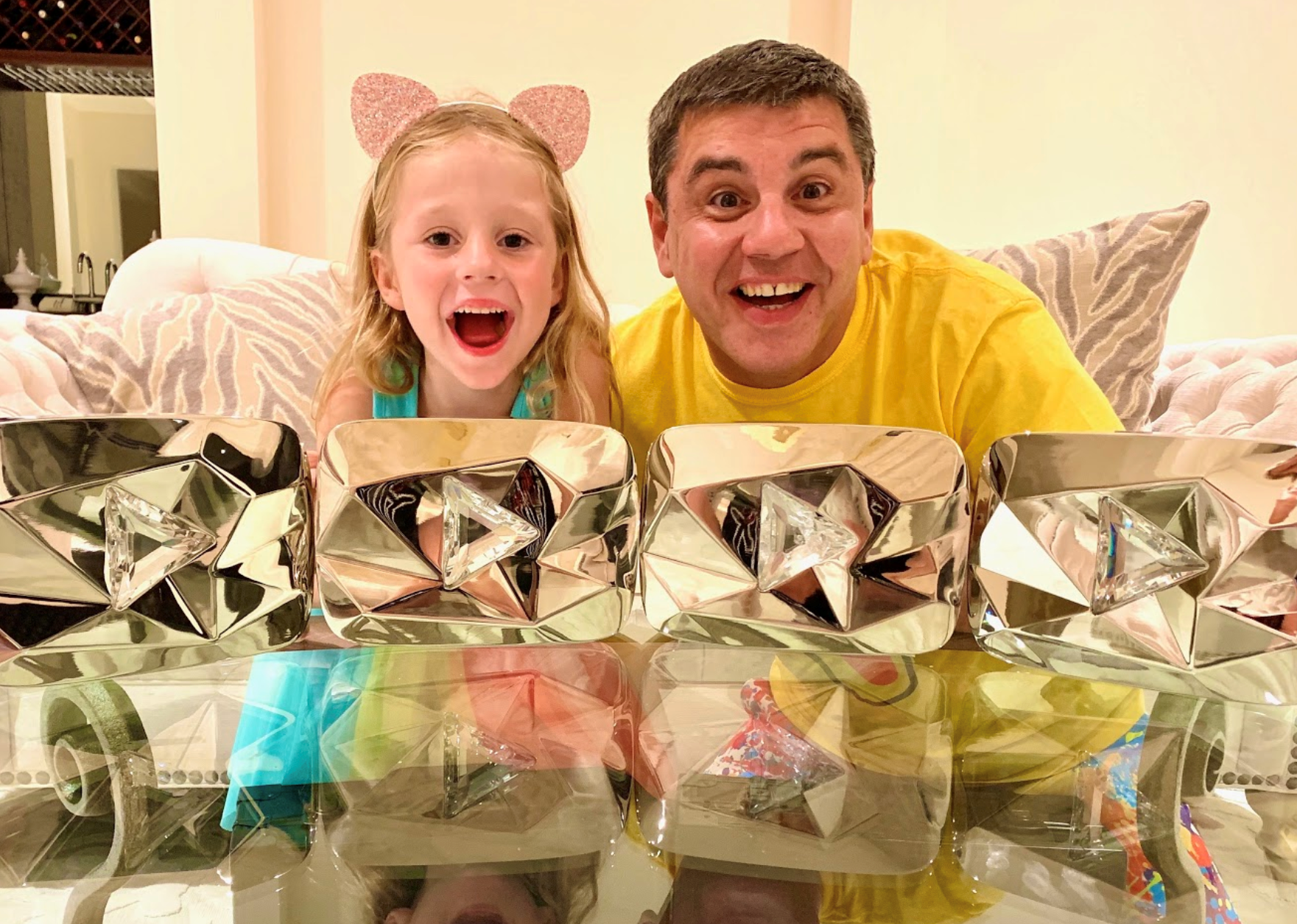 Anastasia, of the Like Nastya YouTube channel, and her father with their four YouTube Diamond Creator Awards.